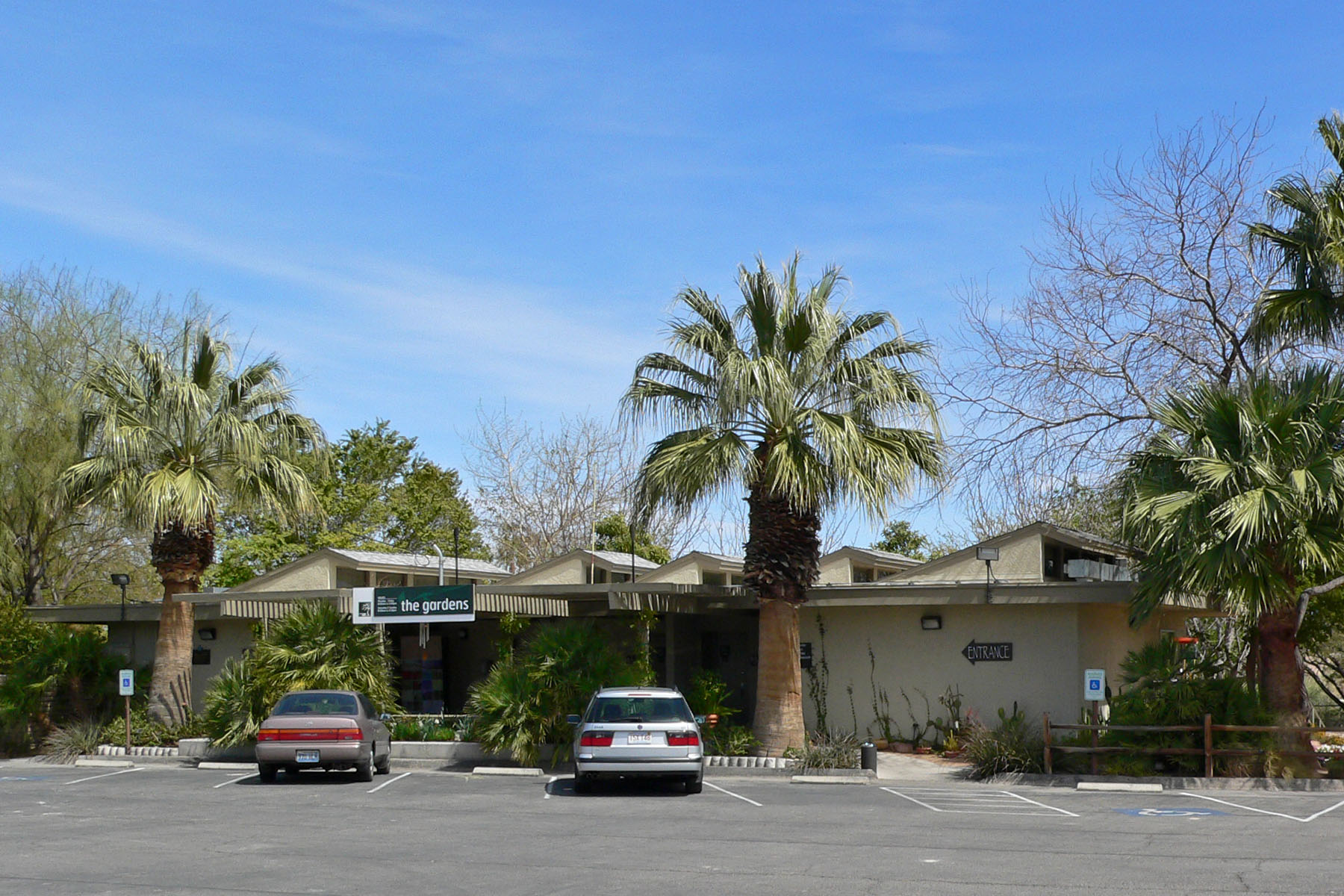 Old Desert Demonstration Garden building at the Springs Preserve — a botanical garden and park in Las Vegas, Nevada.